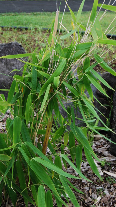 A picture of some young 'Ohe (Schizostachyum glaucifolium) in the gardens at 'Imiloa in Hilo, HI.